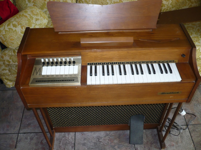 Magnus 890 electric chord organ. This instrument creates sound by blowing air past reeds. Circa mid 60's